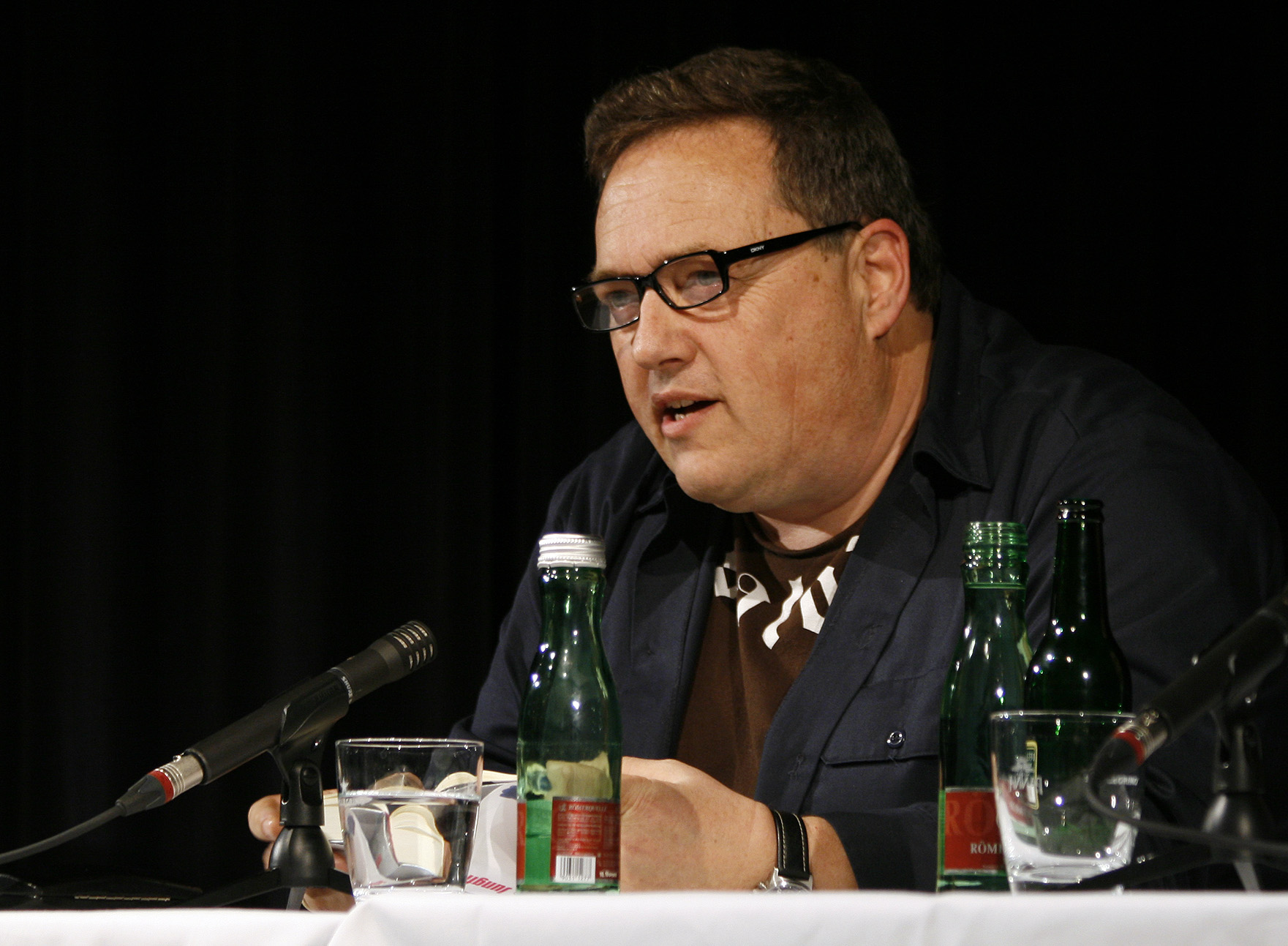 German writer, musician and dj Thomas Meinecke, reading at the Haus der Musik ('House of Music', Palais Erzherzog Karl) in Vienna, Austria.